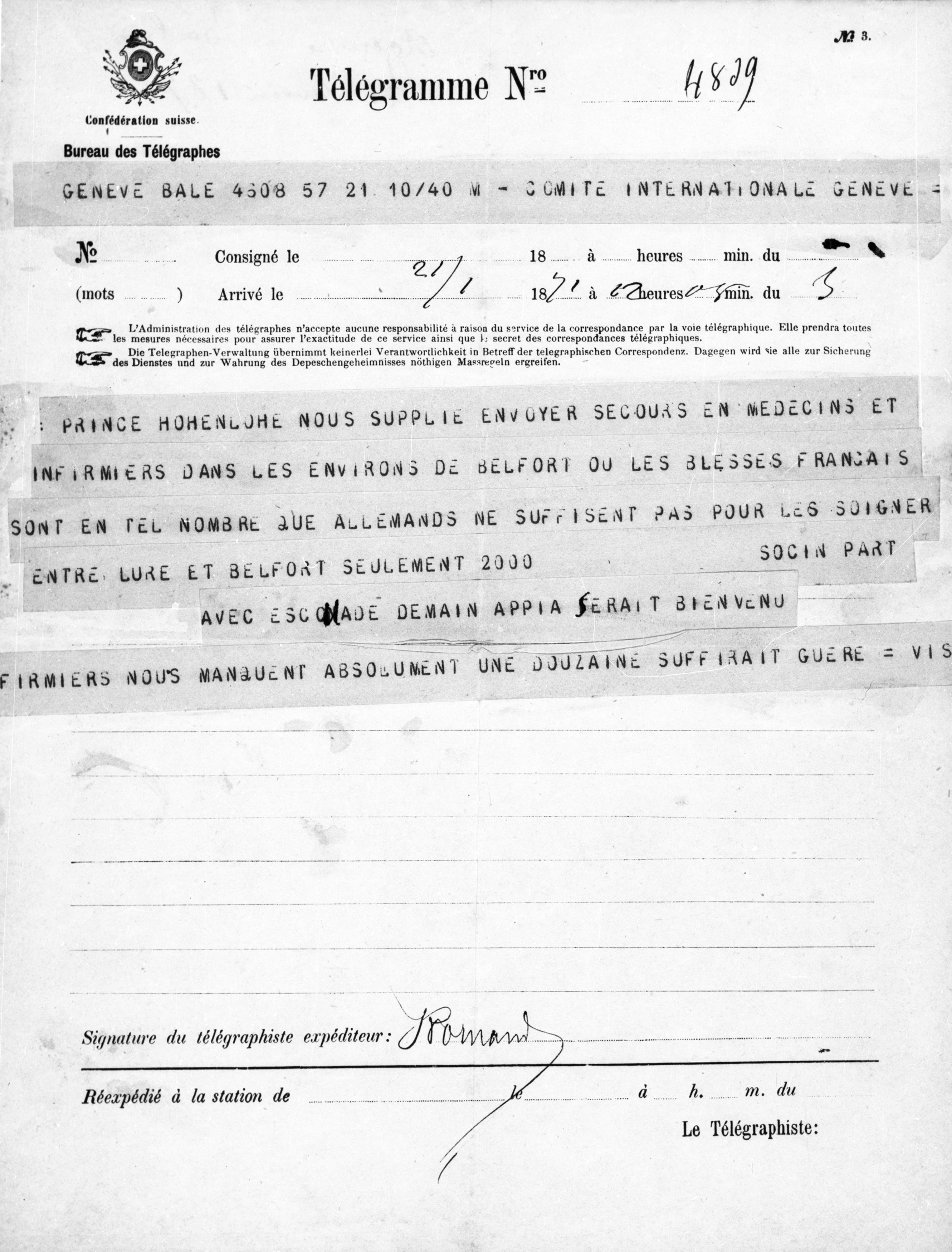 Agency Headquarters, Franco-Prussian War, Basle: Telegram